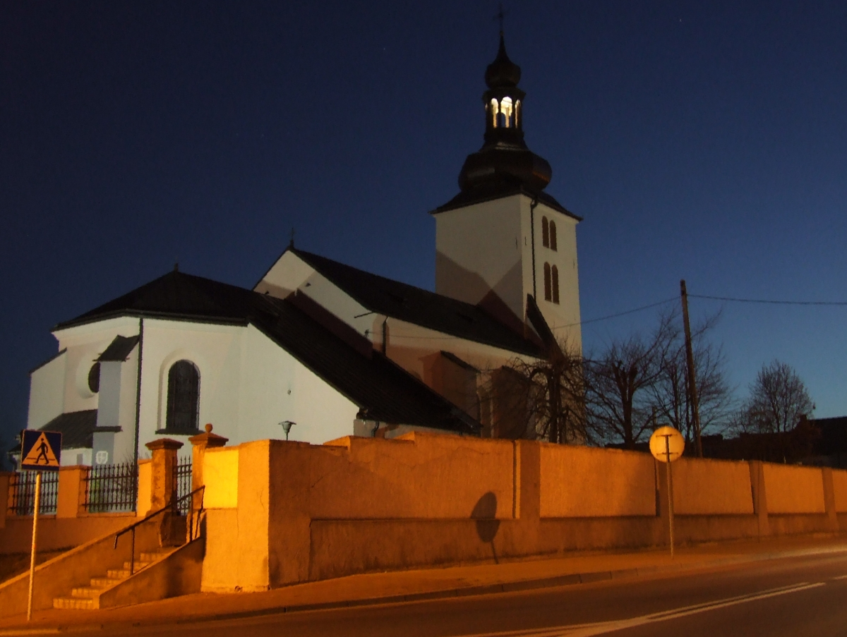 Holy Trinity church in Lipsko, Poland